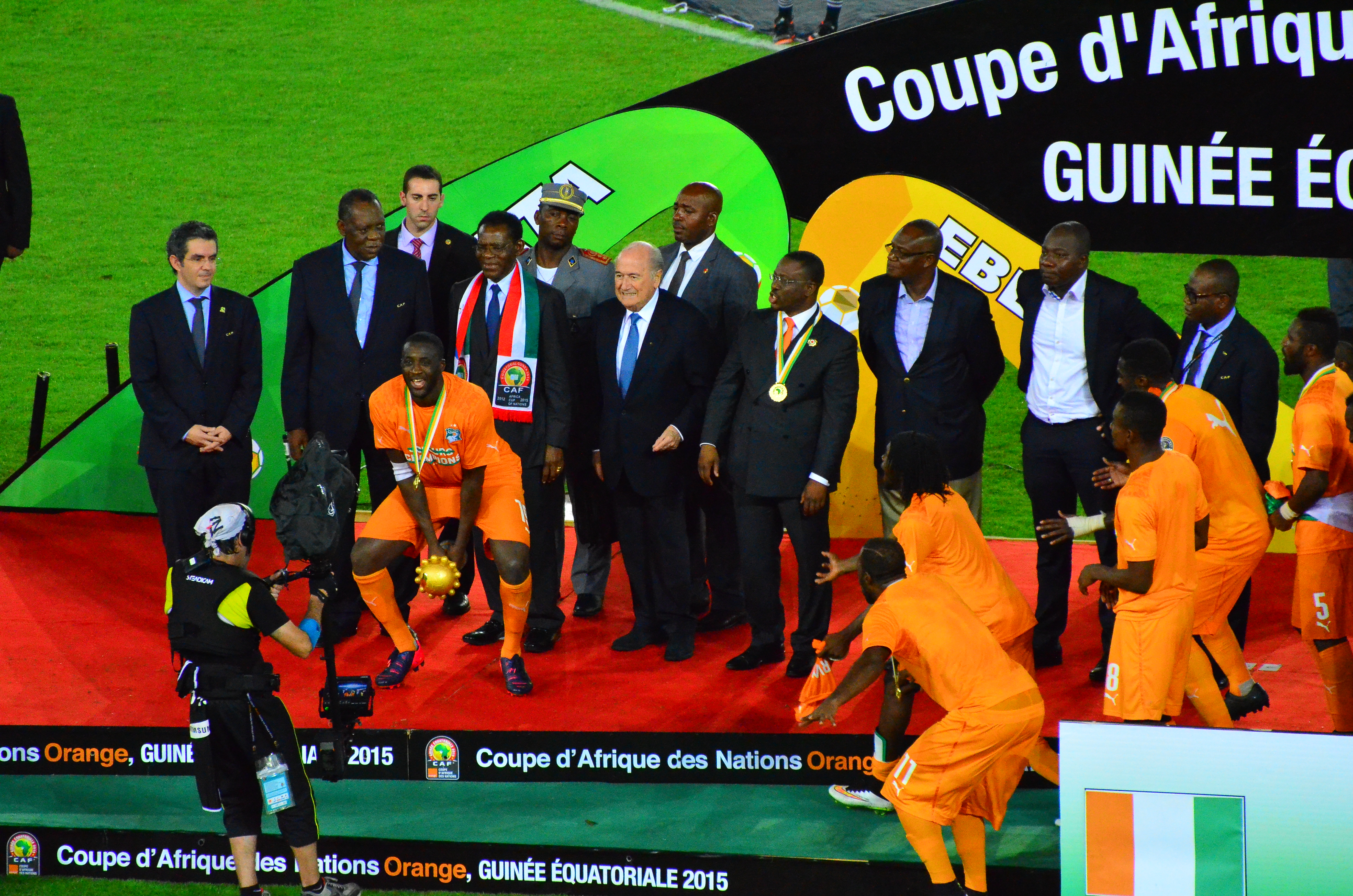 This is a picture of a soccer game (name of it is on file name).